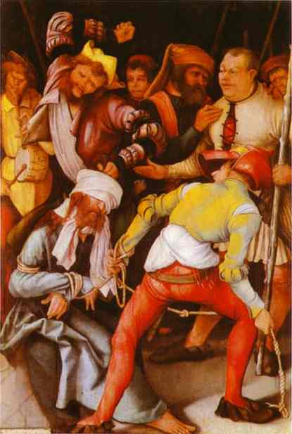 The Mocking of Christ